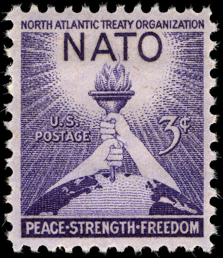 NATO 3-cent 1952 U.S. stamp, issued at the White House on April 4, 1952, honored the North Atlantic Treaty Organization (NATO). President Truman autographed panes of the stamp for presentation to the heads of state of countries belonging to NATO.